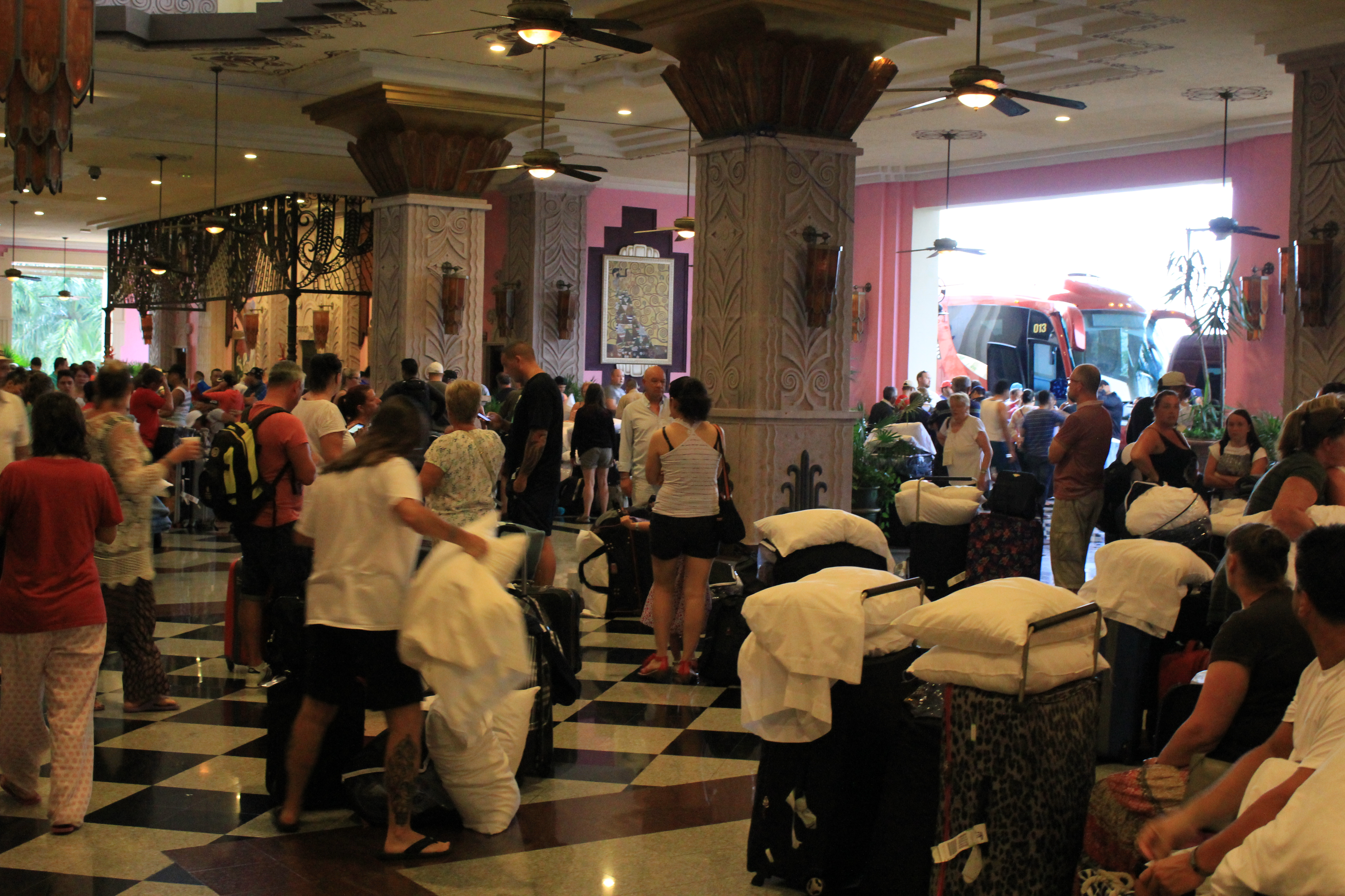 Riu Vallarta,Bahia de Banderas, Nayarit, Mexico. Evacuation from hotel on morning when Hurricane Patricia (Category 5) landed